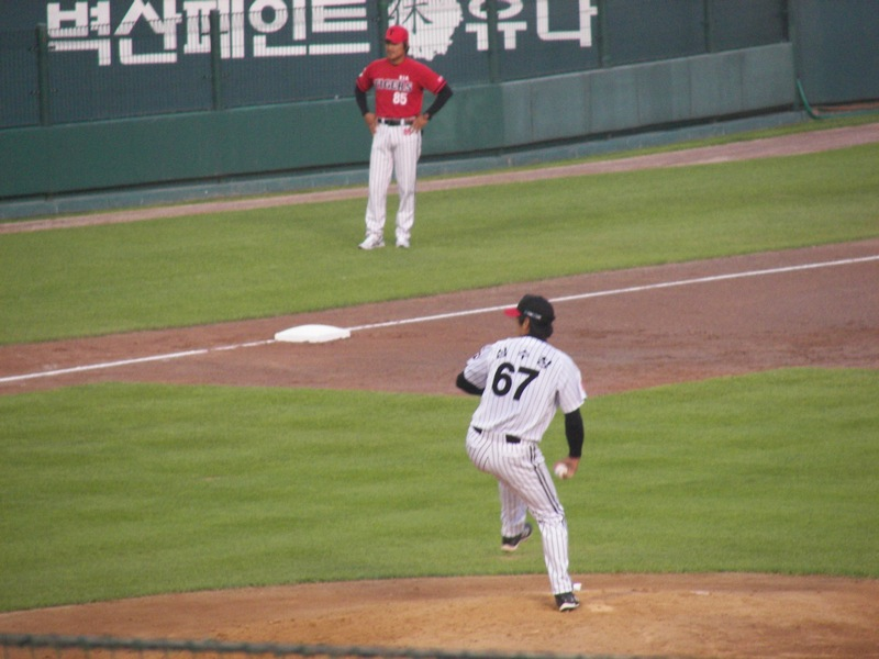 Korean baseball player Shim Soo-Chang.